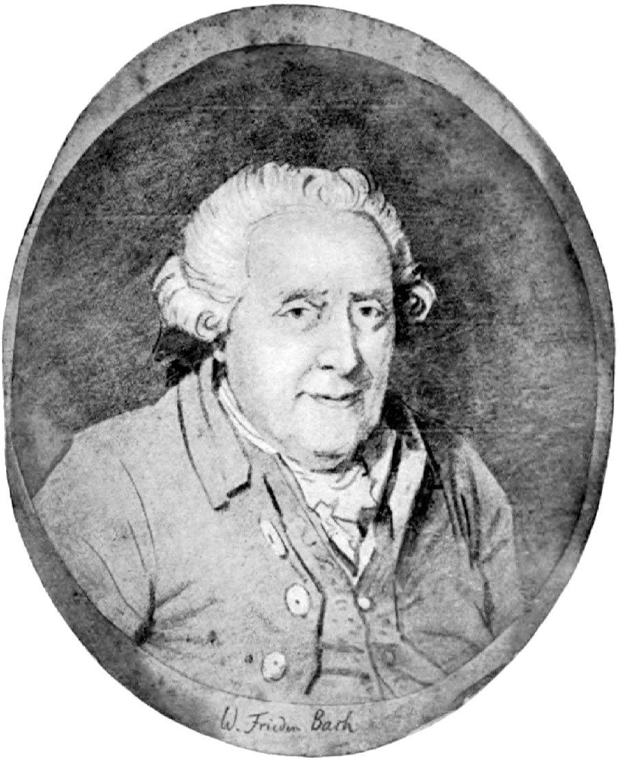 Photo of Wilhelm Friedemann Bach from the book Wilhelm Friedemann Bach : sein Leben und seine Werke, mit thematischem Verzeichnis seiner Kompositionen und zwei Bildern This work is in the public domain in the United States and is able to be viewed and downloaded freely by those in the US. However, HathiTrust appears to use some type of a system that limits one's viewing and downloading by IP number. Because of this, the information may not display properly at the HathiTrust site for those outside of the US. I have uploaded a copy of the complete page showing the image, and the front page with the copyright and printing information on it. The book is in German and was published in Leipzig.